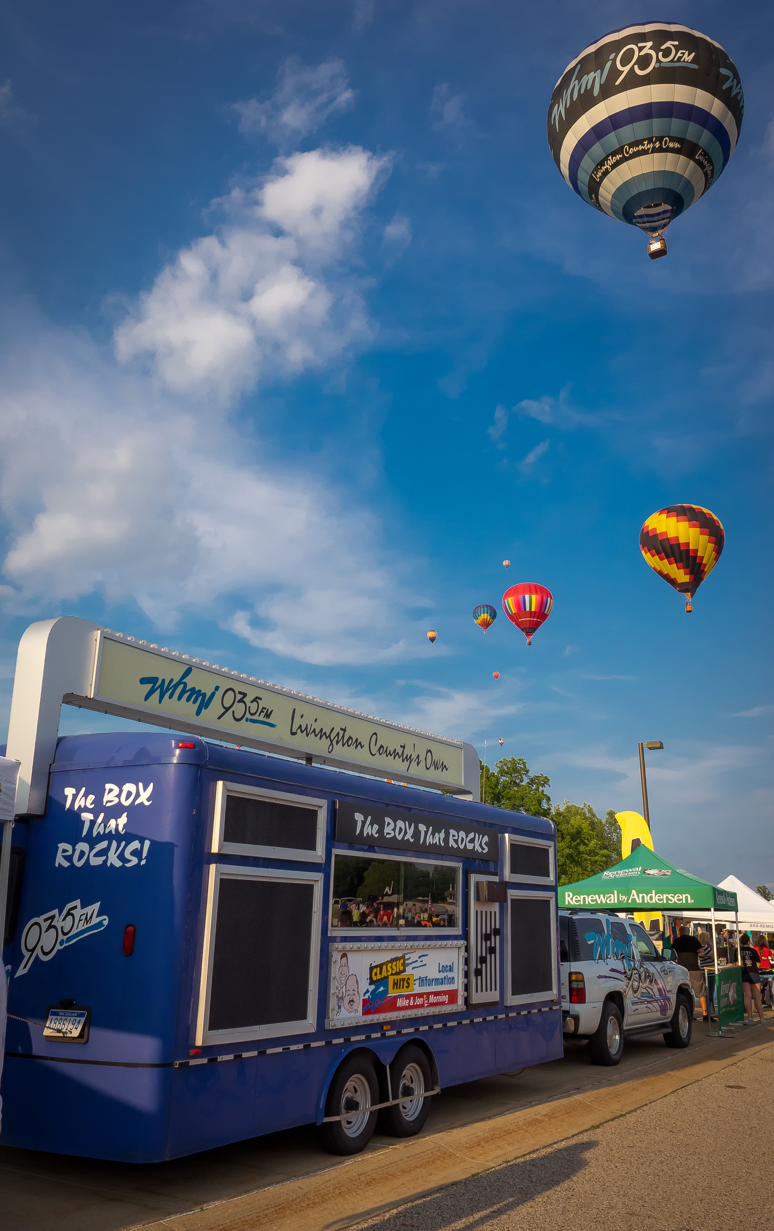 WHMI by Joshua Young